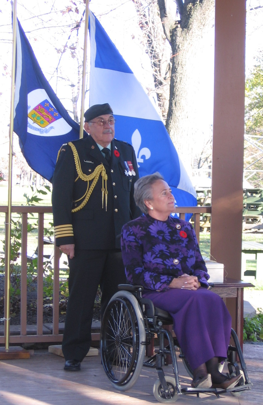 Her Honour, the Honourable Lise Thibault, Lieutenant Governor of Quebec, at the unveiling of three sculptures by Maurice Lemieux at the Douglas Hospital, 1 November 2006.